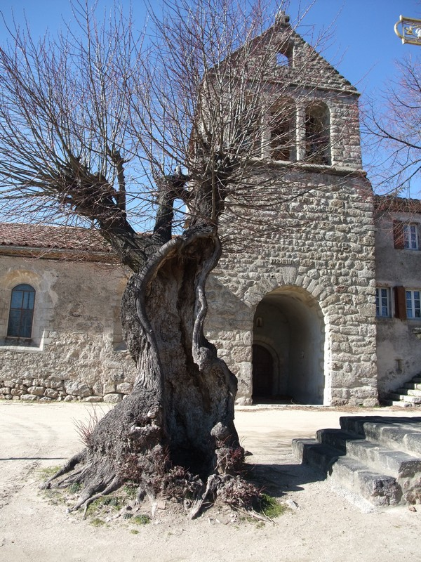 The Church of Laboule